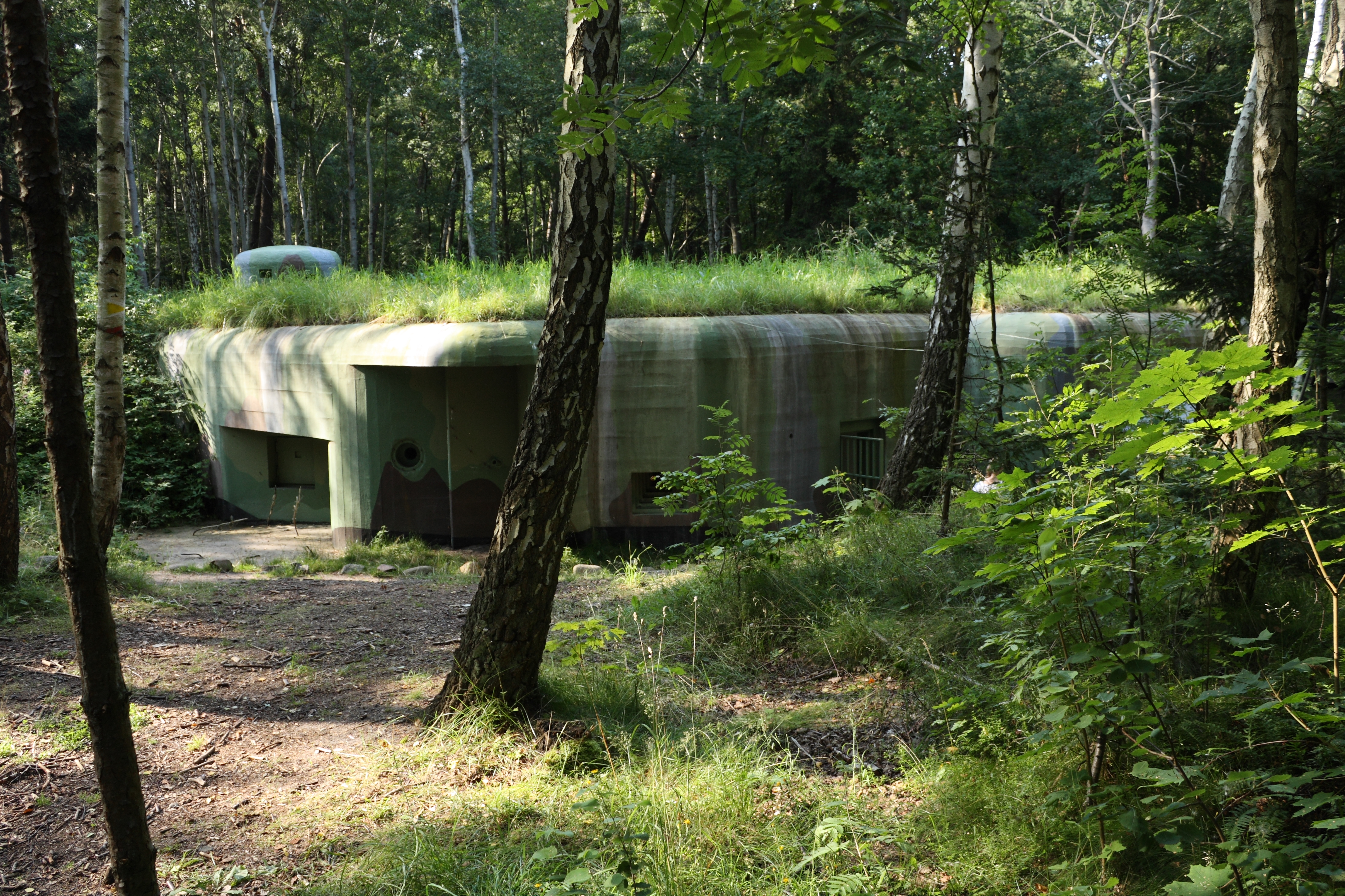 Bunker "Sabała" in Jastarnia, Hel peninsula, Poland. Currently this bunker is a museum.